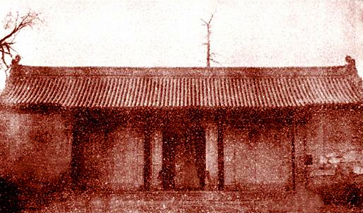 The_Gate1902,AUH